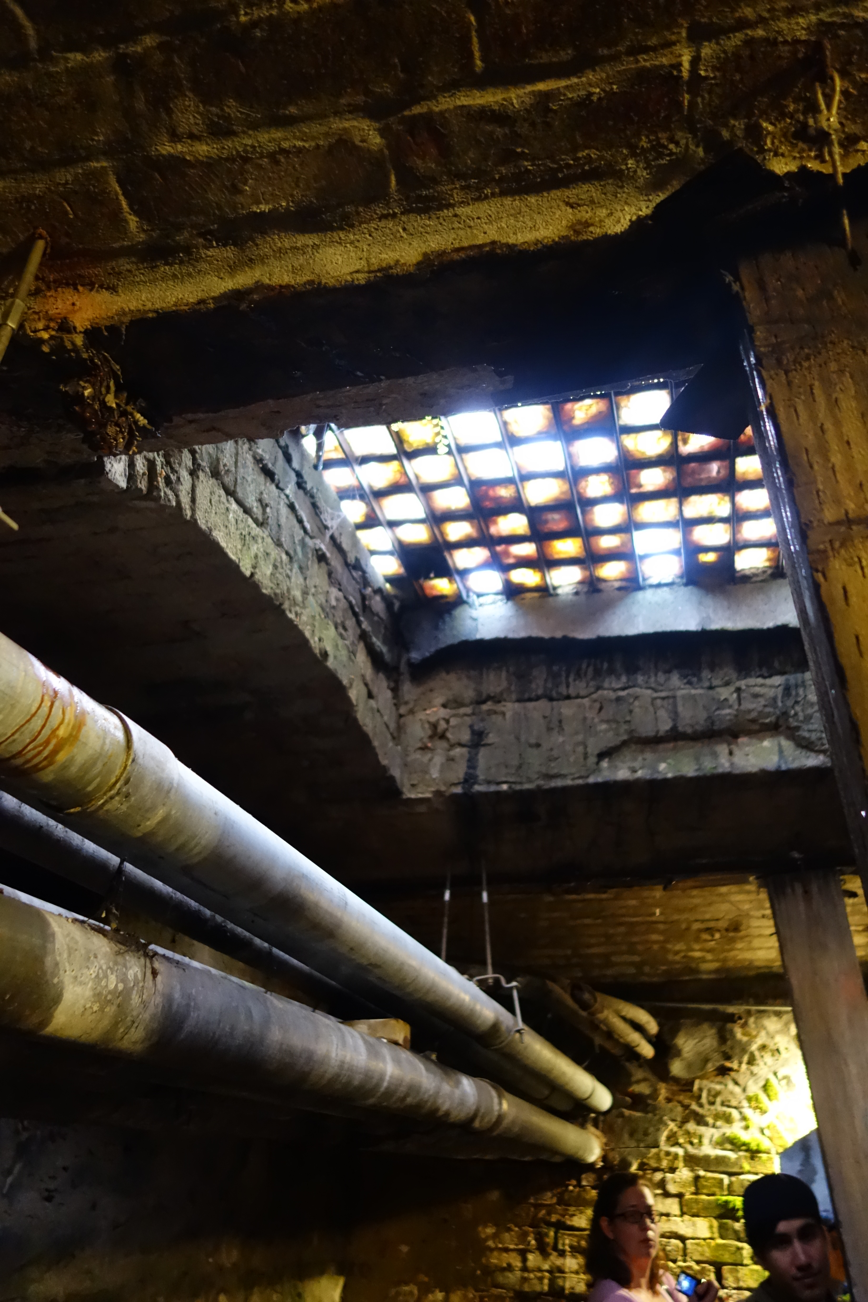 A view from the Seattle Underground looking upwards at the glass skywalks built above the previous street level which supports the current sidewalk.